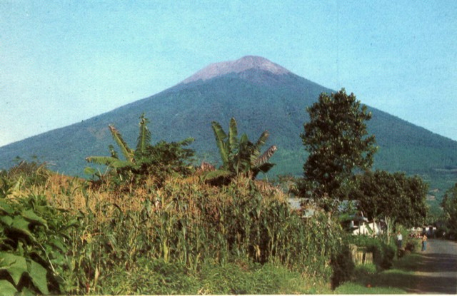 Gunung Slamet, Java's second highest volcano, towers above the village of Kutabawa. The modern volcano forms a less-vegetated cone that rises above the forested slopes of an older volcano in the foreground. Slamet is one of Java's most active volcanoes and has produced frequent explosive eruptions recorded since the 18th century.